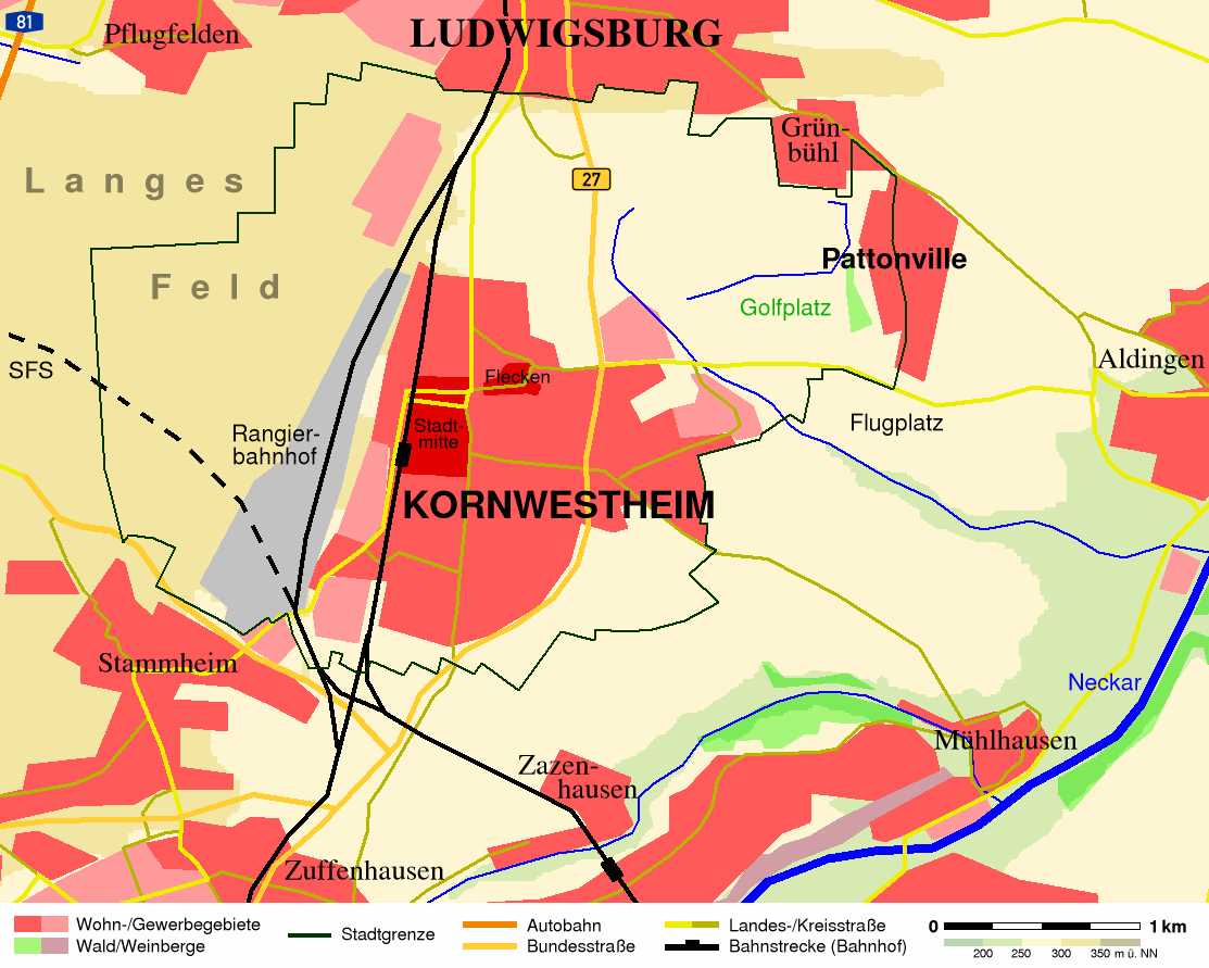 Map of Kornwestheim (Germany) and surrounding area